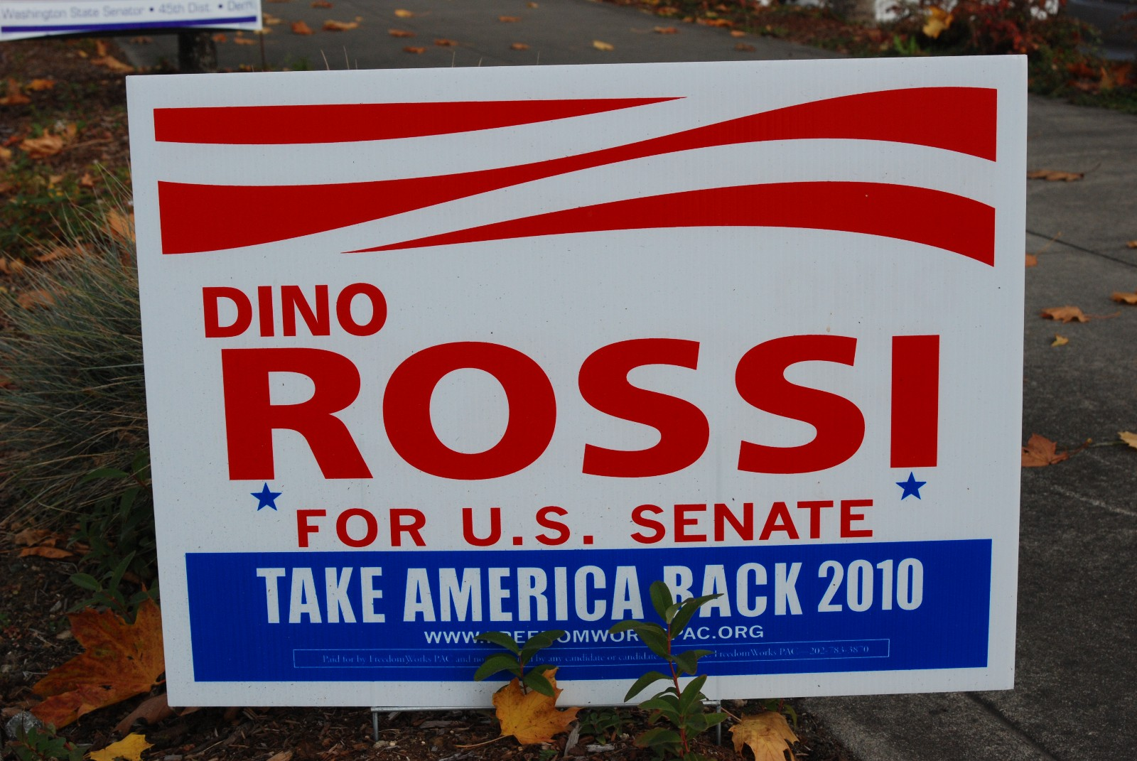 The standard Dino Rossi signs are blue and gold, so I at first thought that the Rossi campaign had run out and had gone with a new design for their new batch of signs. But when I got close to it, I realized that these signs aren't from the Rossi campaign - they're from Freedomworks PAC - which explains the "Take America Back" verbiage. So far, these are the only candidate signs that I've identified as being from an outside group.